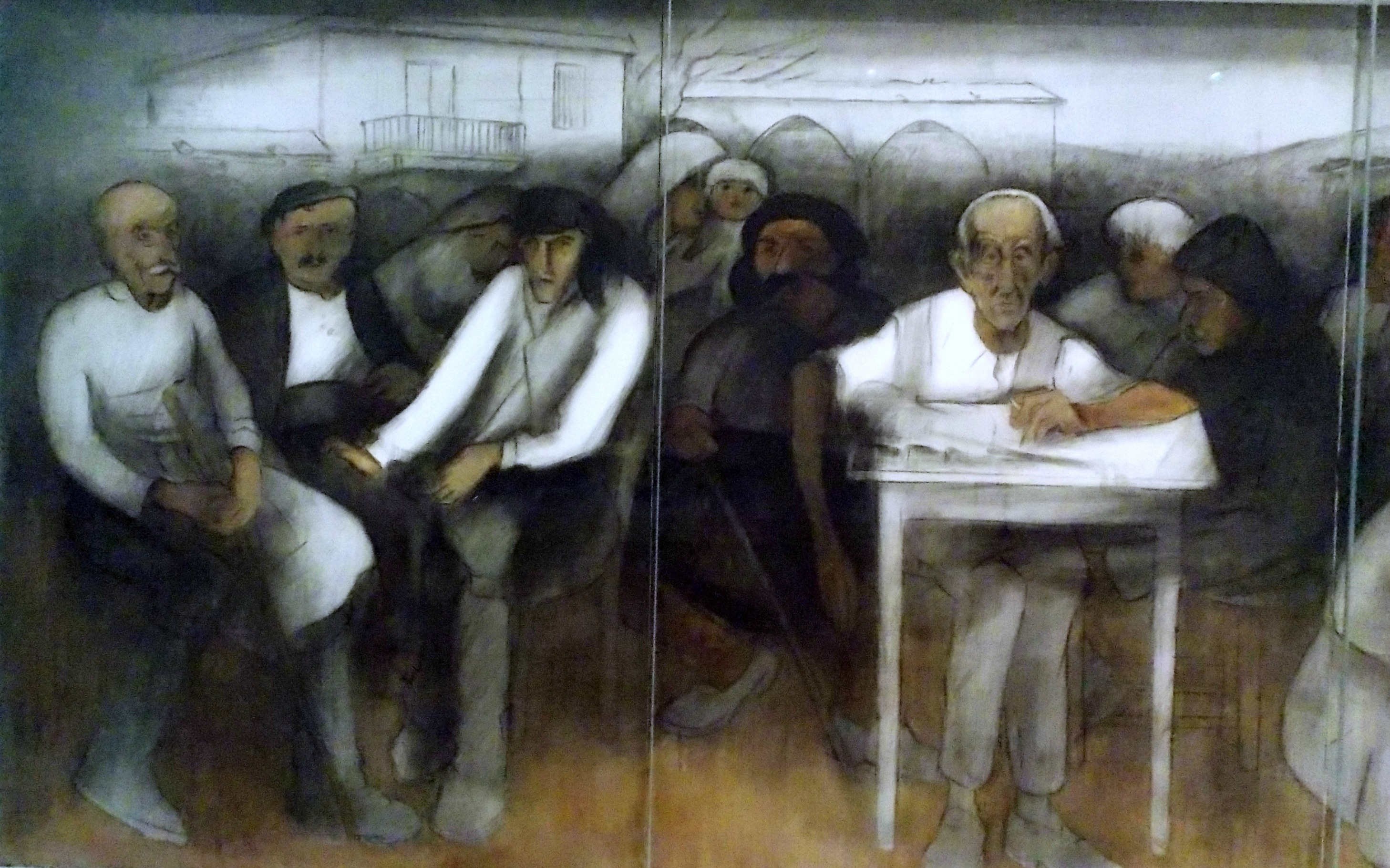 Leventis Gallery, Nicosia, Cyprus. Adamantios Diamantis - The World of Cyprus, part 1.